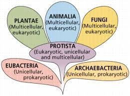 These are the six kingdoms of life, Plantae, Anamalia, Fungi, Protista, Eubacteria and Archaebacteria.